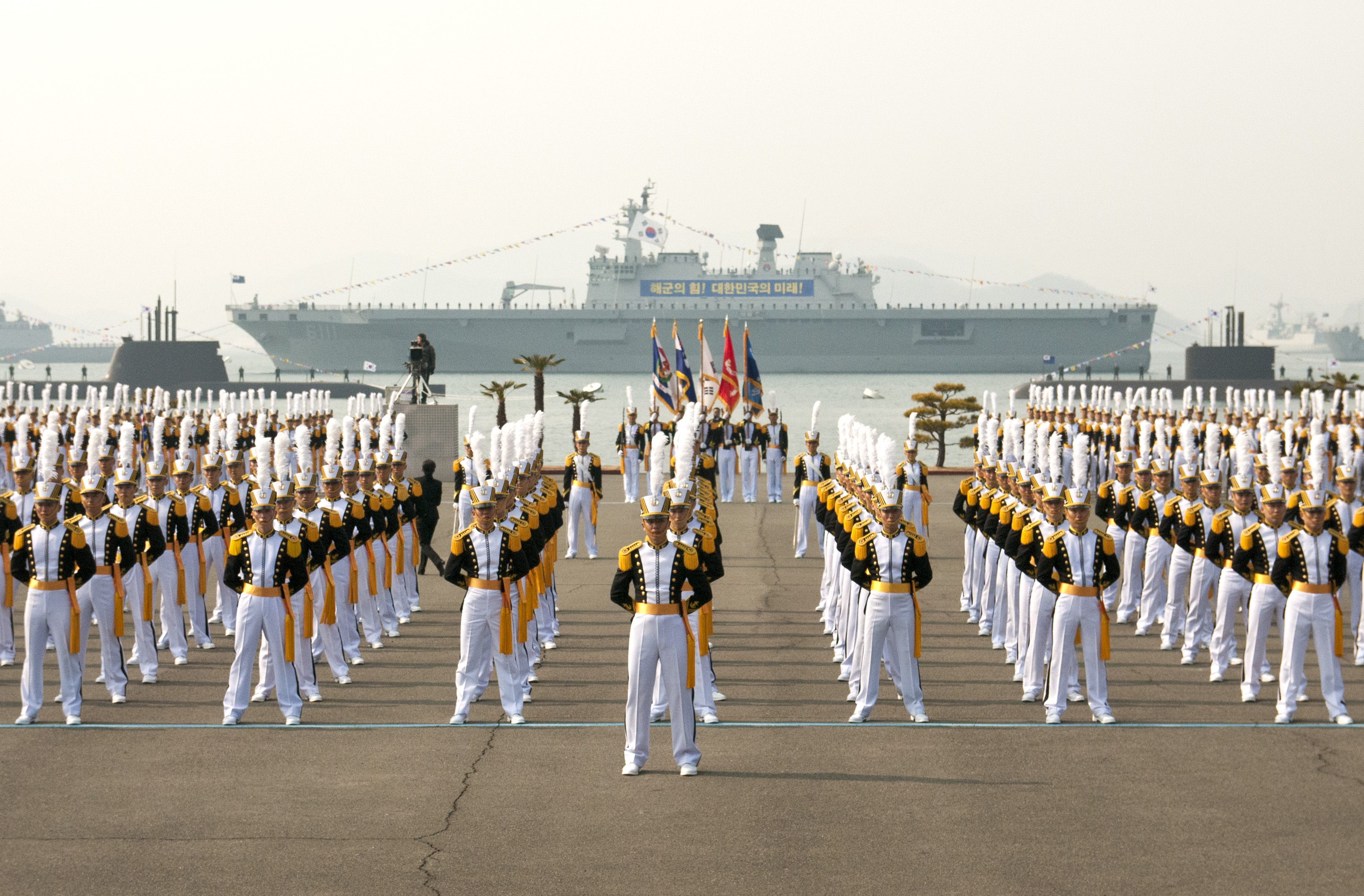 JINHAE, Republic of Korea (Feb. 22, 2013) Midshipmen at the Republic of Korea (ROK) Naval Academy stand in formation at parade rest with ROK Navy ships and submarines behind them minutes before the commencement of their graduation ceremony. Rear Adm. Bill McQuilkin, commander of U.S. Naval Forces Korea was among many U.S. Naval officers in attendance who showed their support for the newly commissioned ROK Naval officers. (U.S. Navy photo by Mass Communication Specialist 2nd Class Joshua B. Bruns/Released) 130222-N-TB410-221 Join the conversation navylive.dodlive.mil